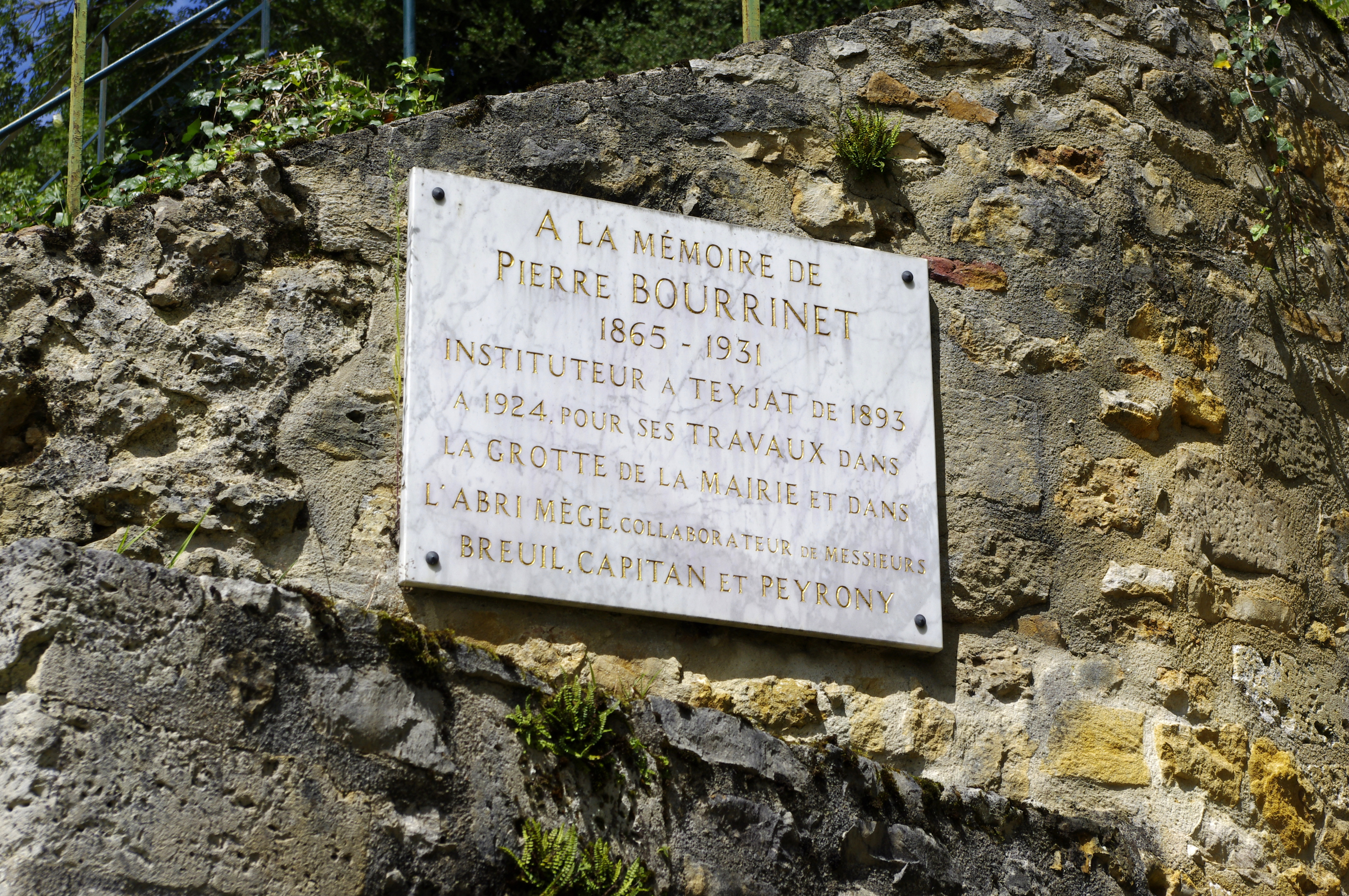 Teyjat, Dordogne, France. Plaque at the entrance of the cave